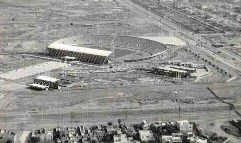 An areal view of Al-Shaab Stadium during its construction in 1965.